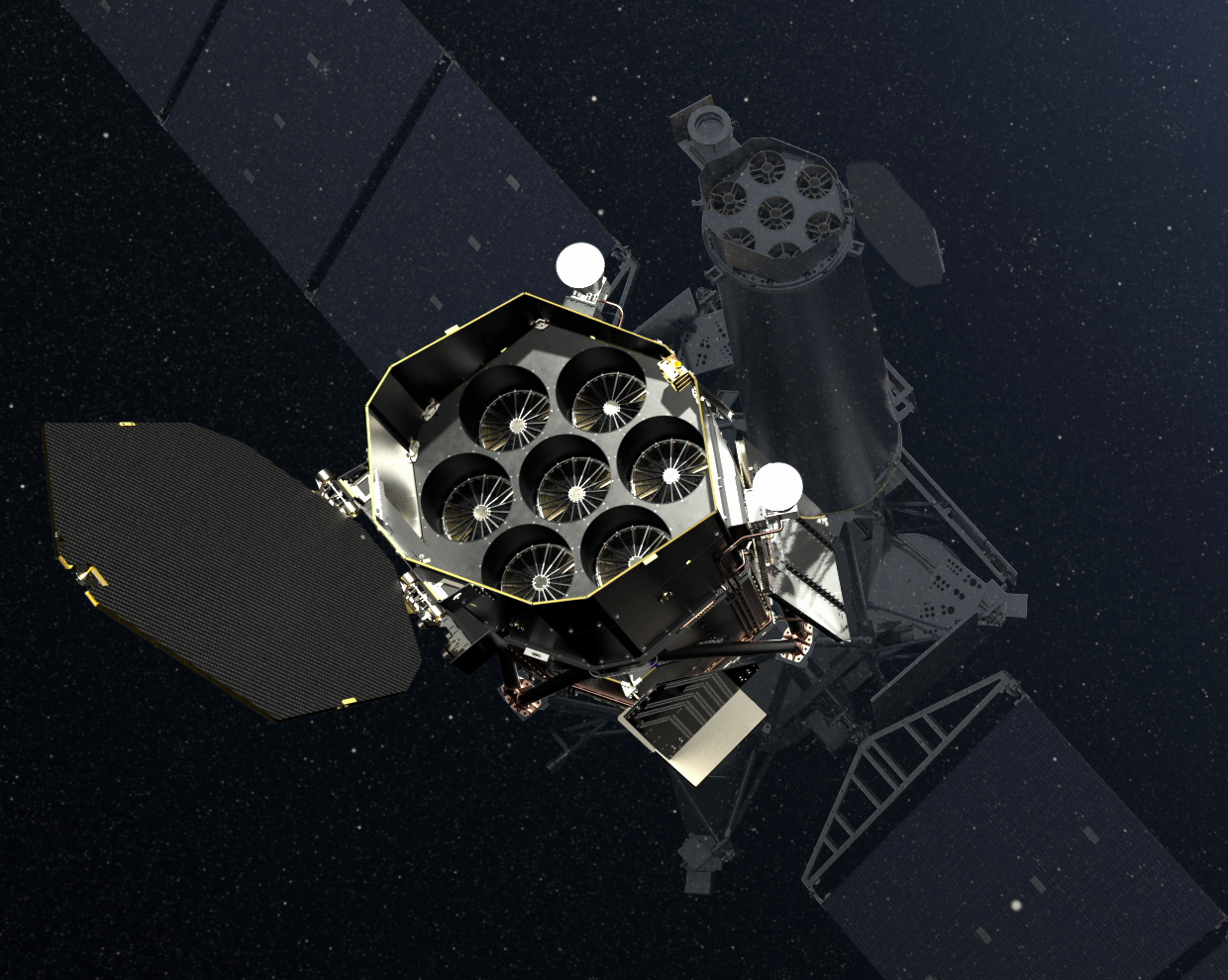 The Spektrum-Röntgen-Gamma (Spektr-RG / SRG) spacecraft will be carrying the German ‘extended ROentgen Survey with an Imaging Telescope Array’ (eROSITA) X-ray telescope and its Russian ART-XC partner instrument. A Proton rocket will carry the spacecraft from the Baikonur Cosmodrome towards its destination – the second Lagrange point of the Sun-Earth system, L2, which is 1.5 million kilometres from Earth. In orbit around this equilibrium point, eROSITA will embark upon the largest ever survey of the hot Universe.